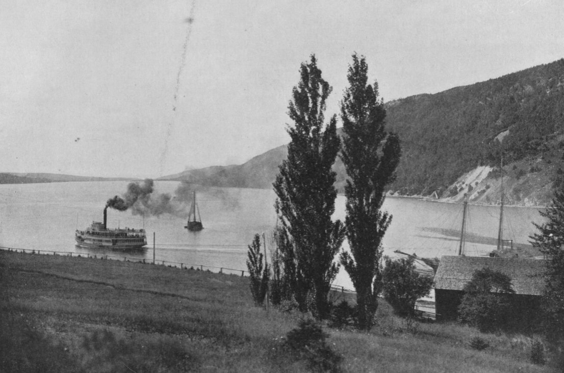 Passenger steamer on Bras d'Or Lake, Nova Scotia, ca 1903.